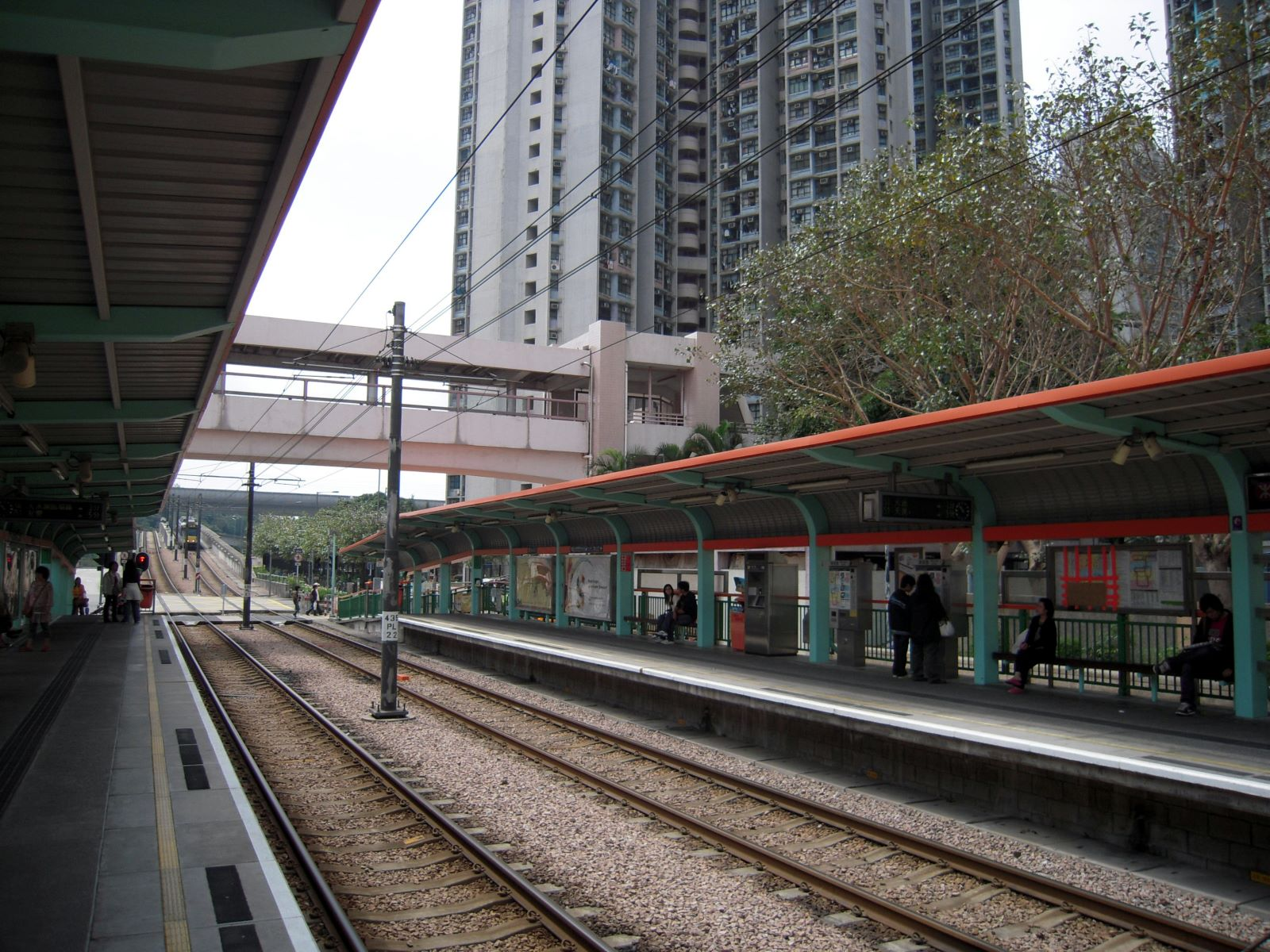 MTR Light Rail Tin Tsz Stop, Hong Kong